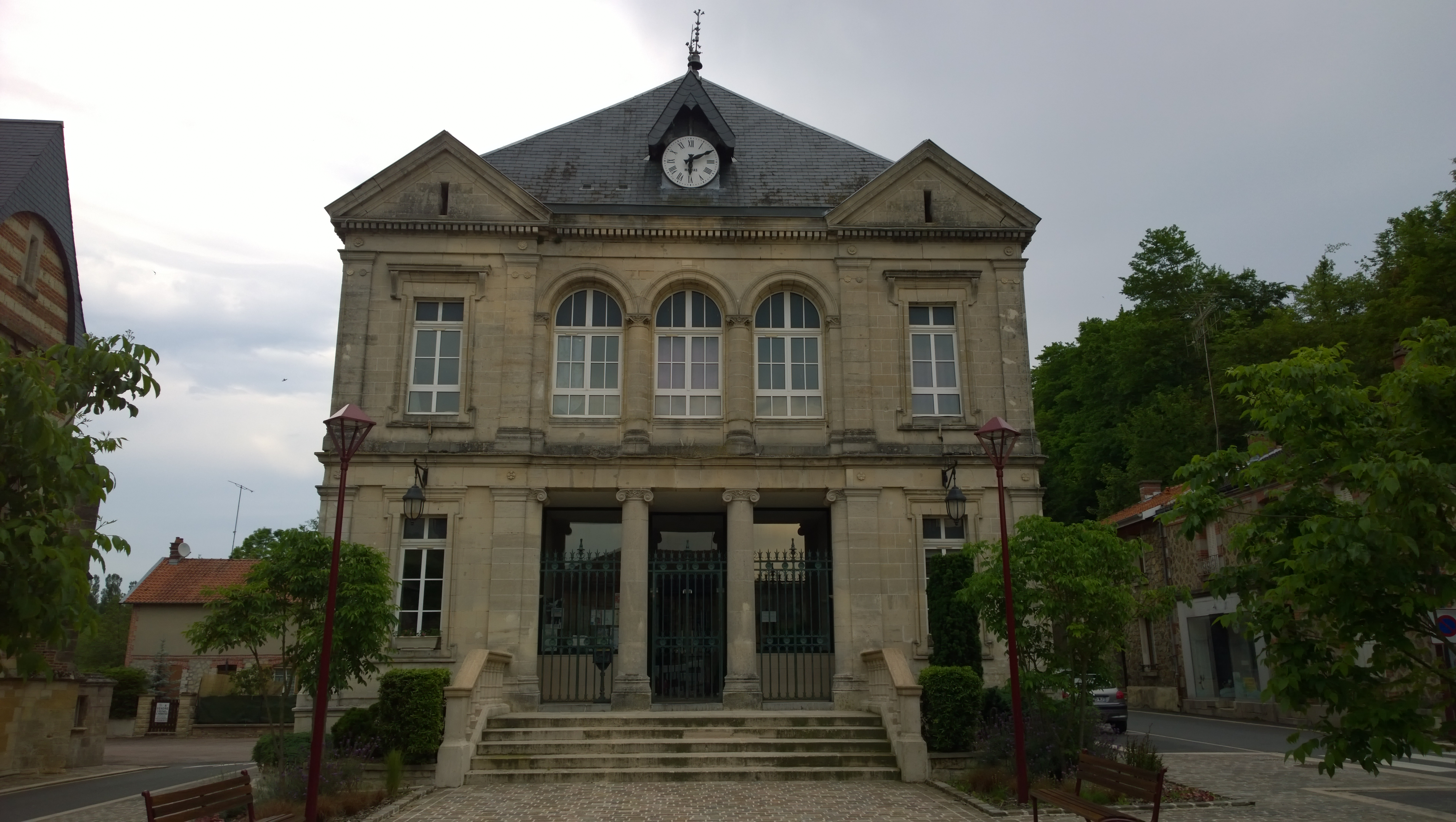 The photo is of the Mairie in Vienne-le-Château